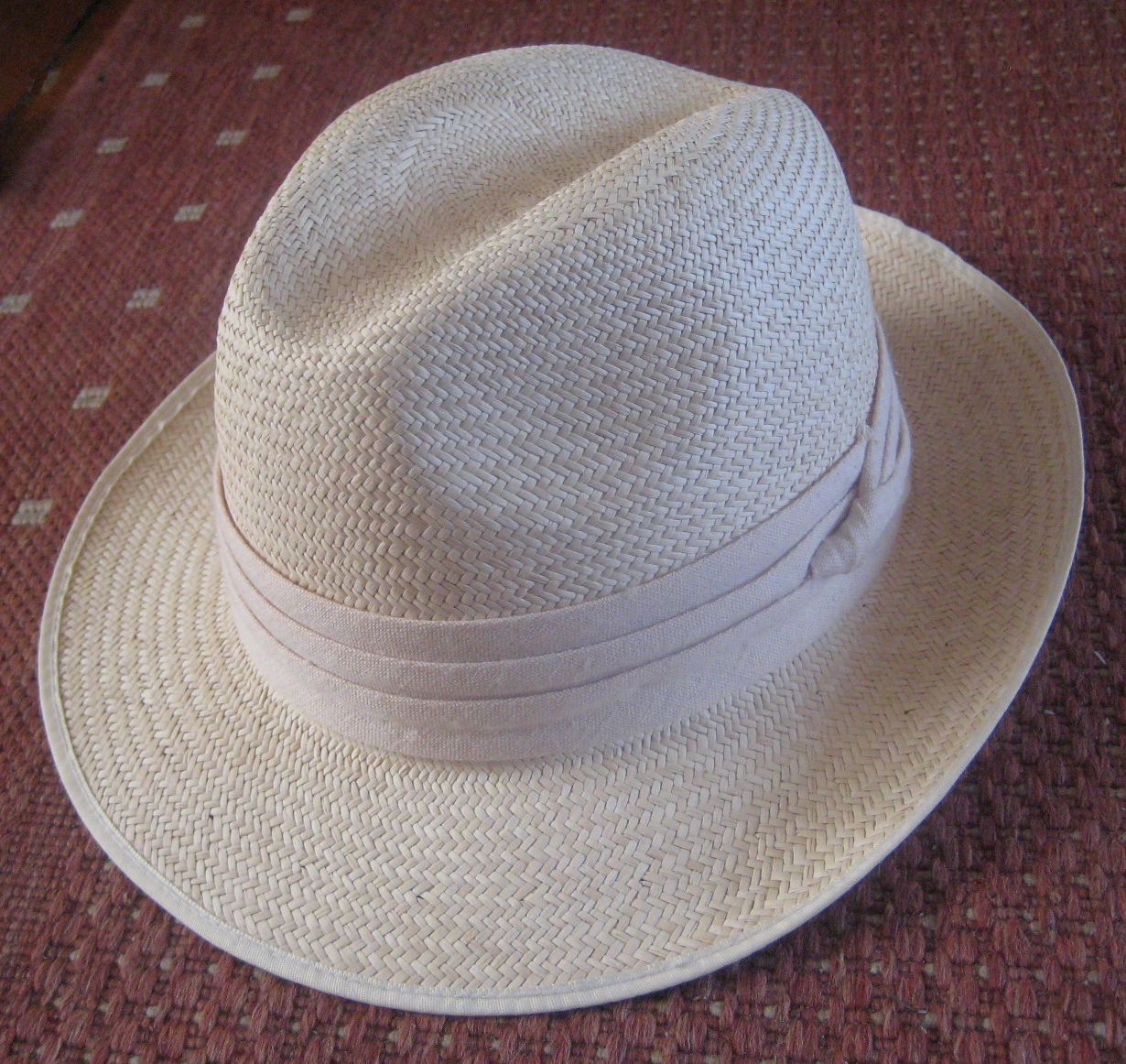 Panama hat. Woven in Ecuador, made in England. Purchased in London, July 2009.